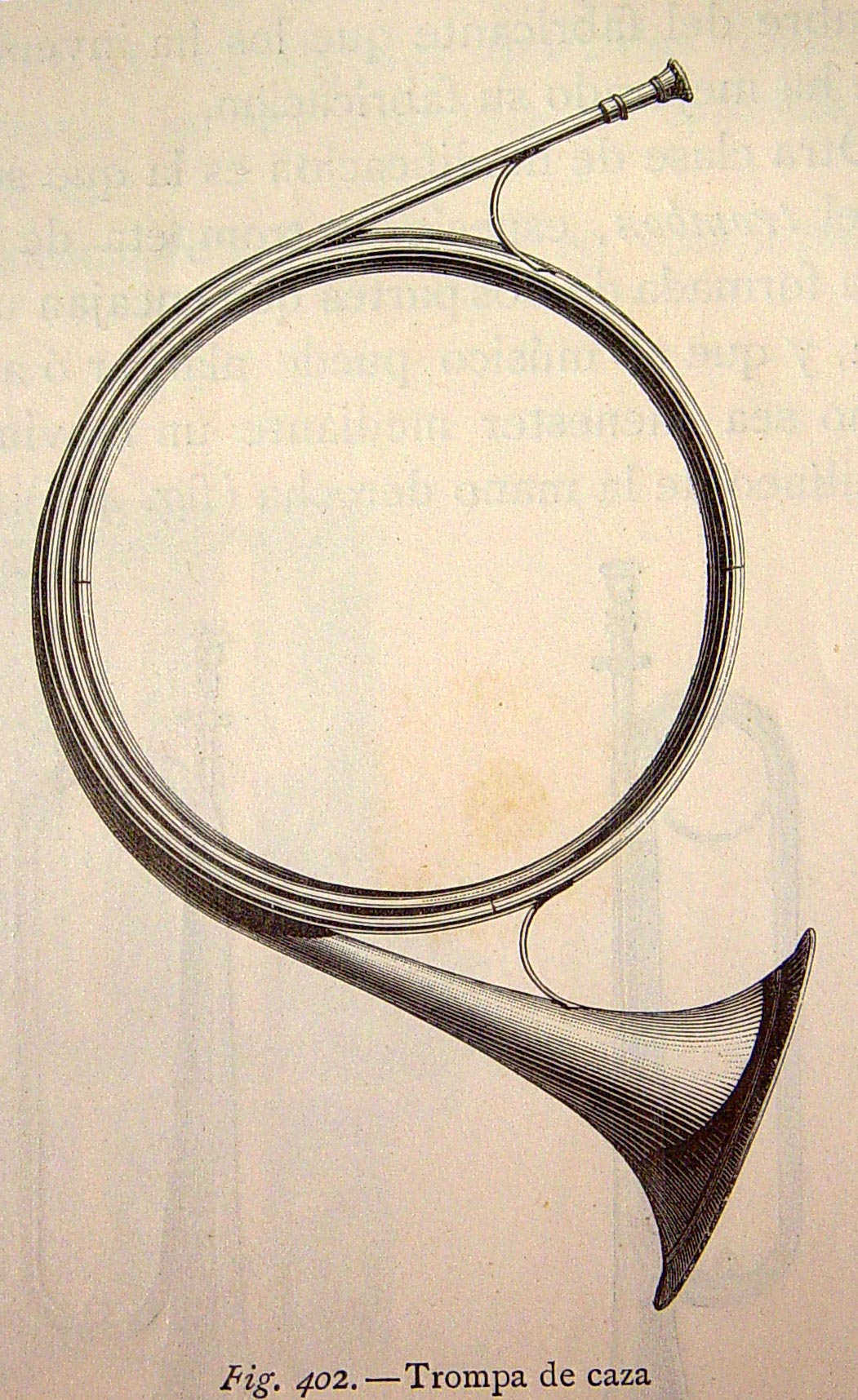 Hunting horn Ilustraciones pertenecientes al libro : El mundo físico : gravedad, gravitación, luz, calor, electricidad, magnetismo, etc. / A. Guillemin. - Barcelona Montaner y Simón, 1882